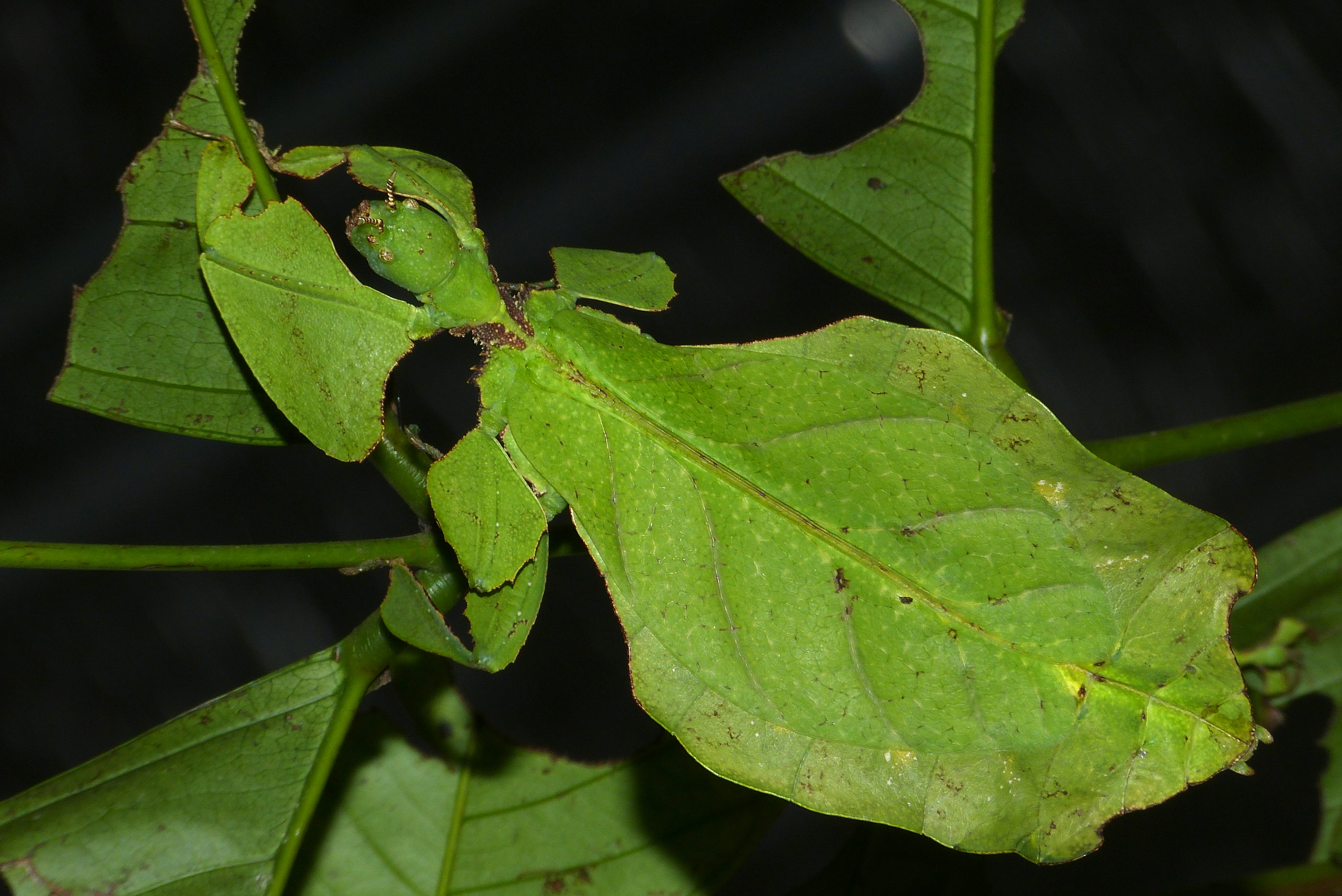 Butterfly Farm, Brinchang, Cameron Highlands, Pahang, MALAYSIA